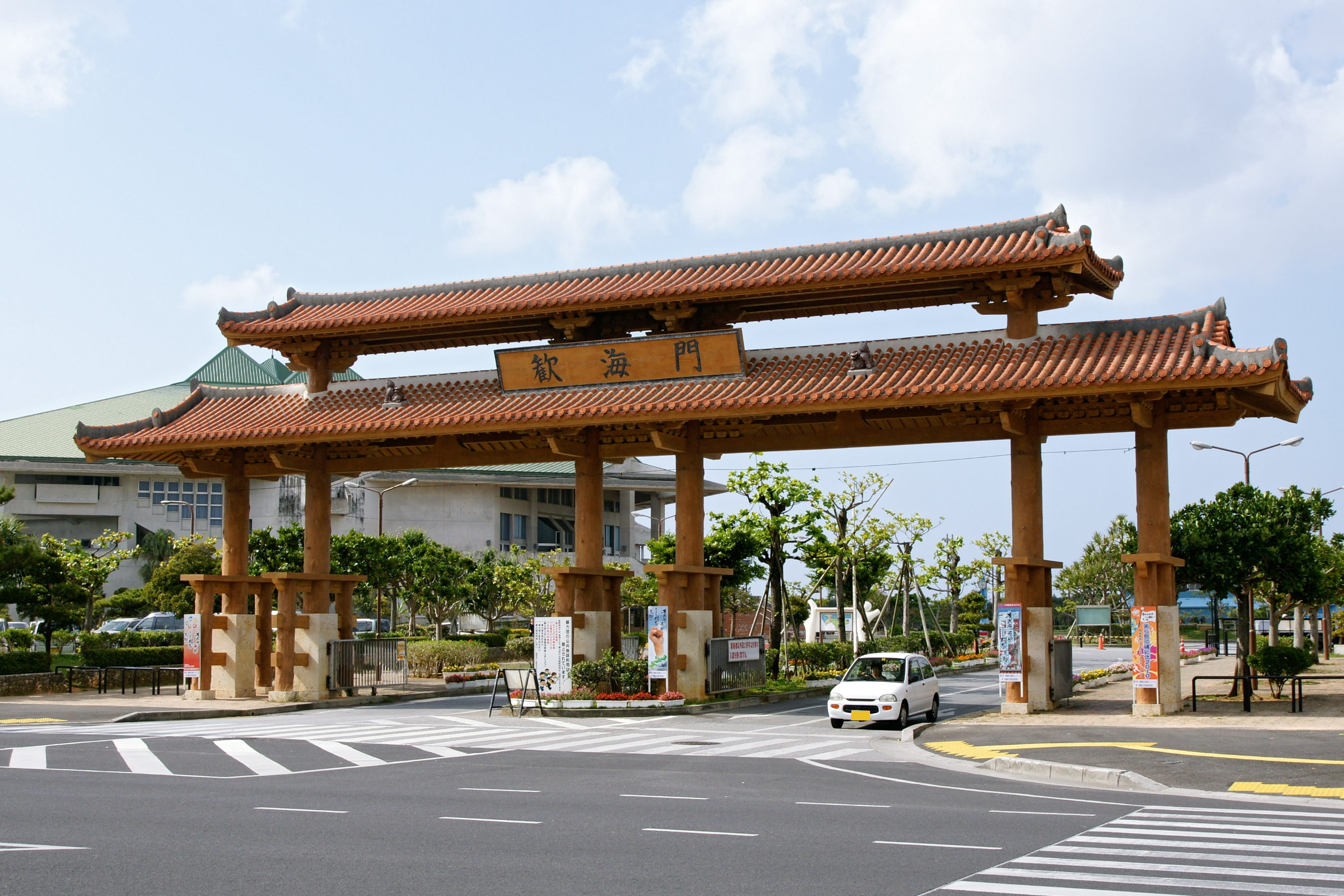 Ginowan Seaside Park in Ginowan, Okinawa prefecture, Japan.